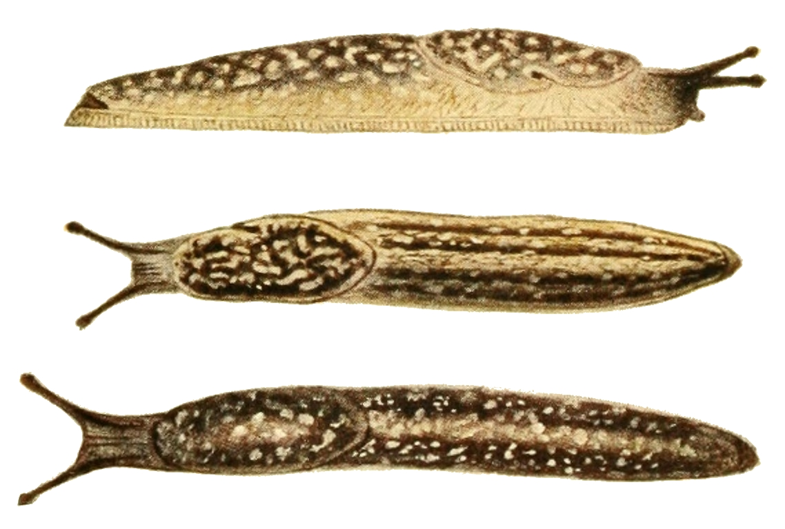 Drawings of Geomalacus maculosus.